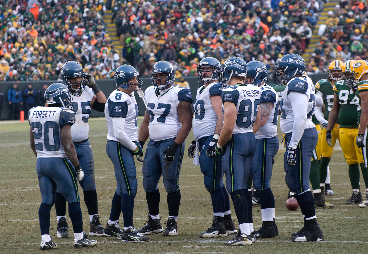 Seattle vs. Green Bay • December 27, 2009 at Lambeau Field in Green Bay, Wisconsin.